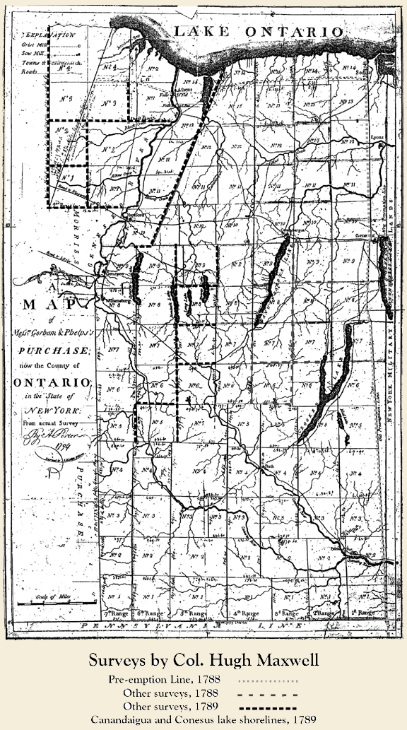 This map shows the Phelps and Gorham purchase as it was between 1802 and 1806. It is a reduced fac-simile of the rare original and is the most correct extant of the Phelps and Gorham purchase.